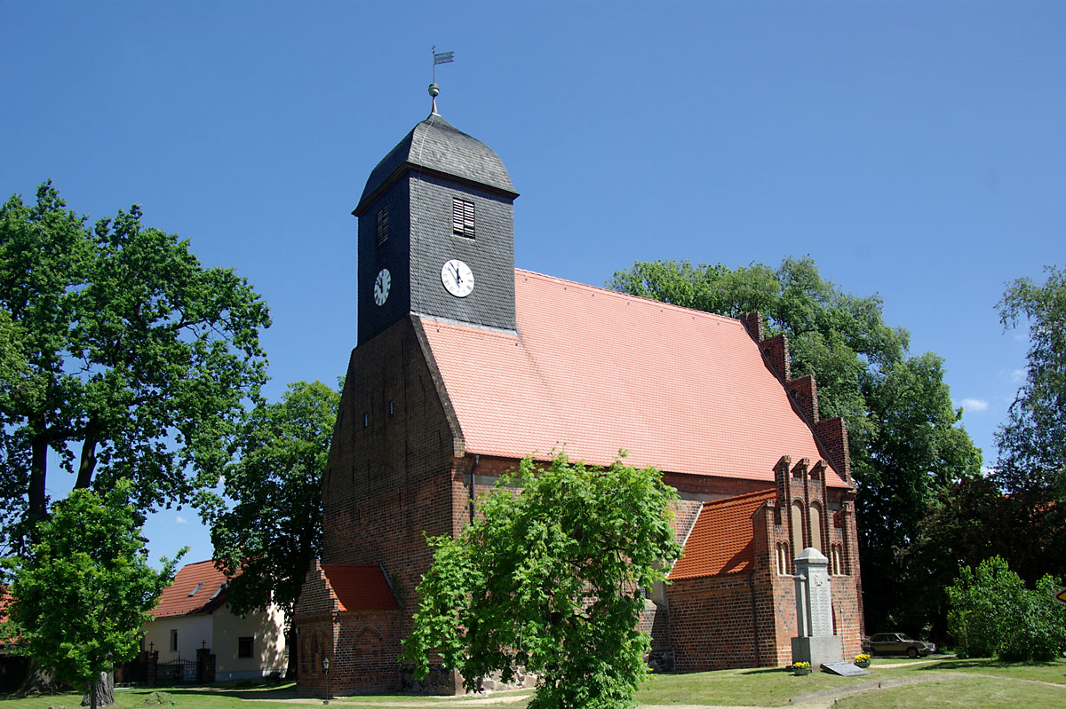 Church of Briesen, Spreewald, Brandenburg, Germany